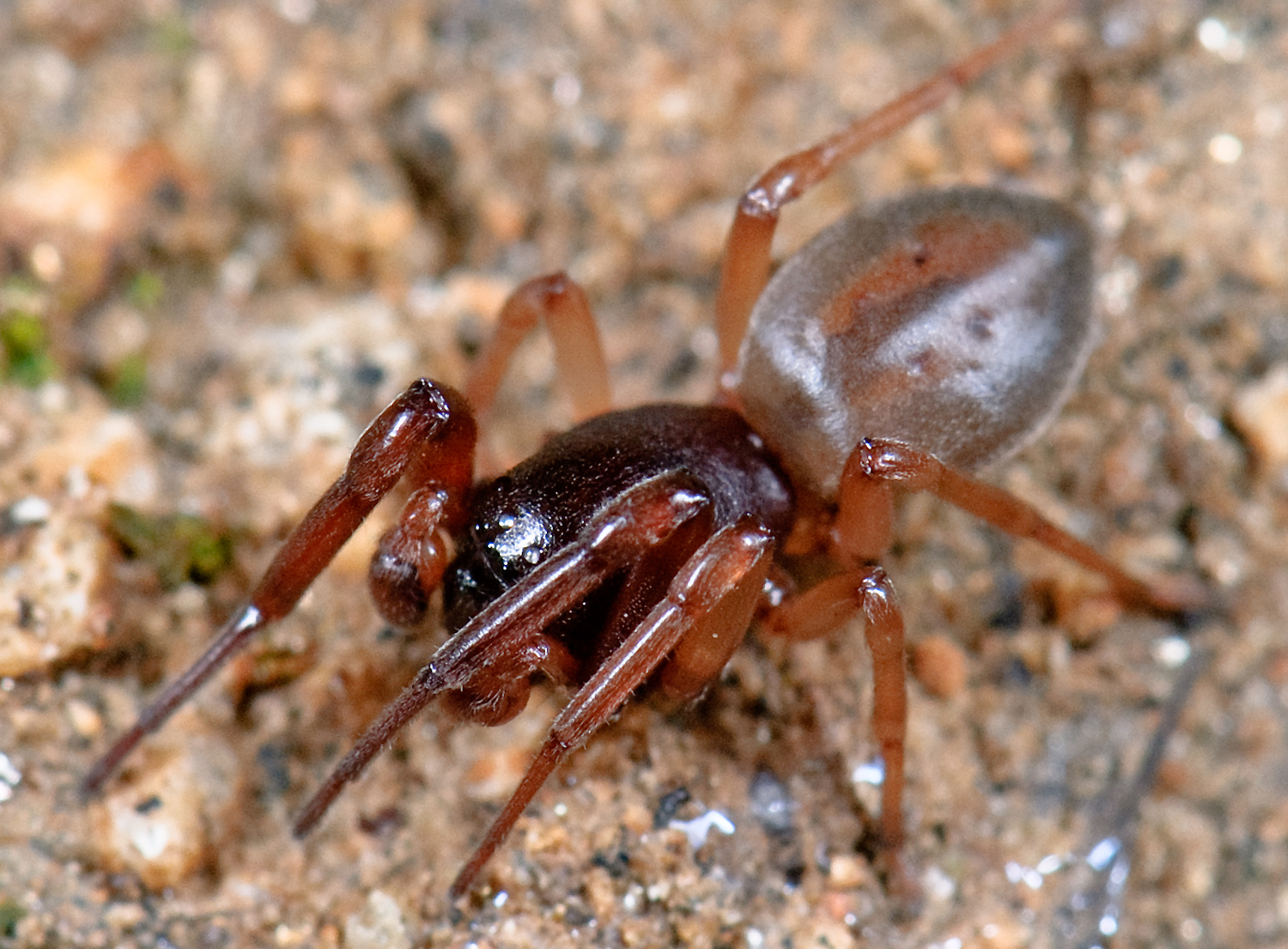 Trachelas pacificus, male. Photographed in habitat, wandering at night; Mission Trails Regional Park, San Diego